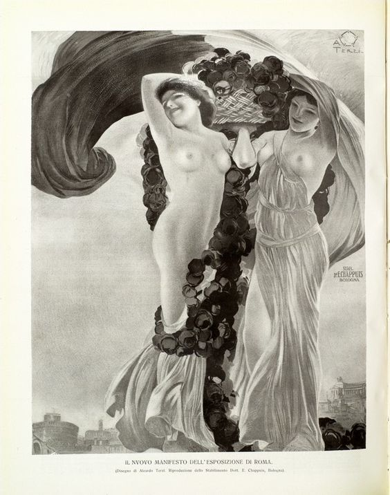 Aleardo Terzi (Palermo, 6 gennaio 1870 - Castelletto sopra Ticino, 15 luglio 1943): Allegoria delle Feste Cinquantenarie, 20 settembre 1910. Litografia in «Rassegna illustrata della esposizione del 1911», II, n. V-VI, 27 marzo 1911